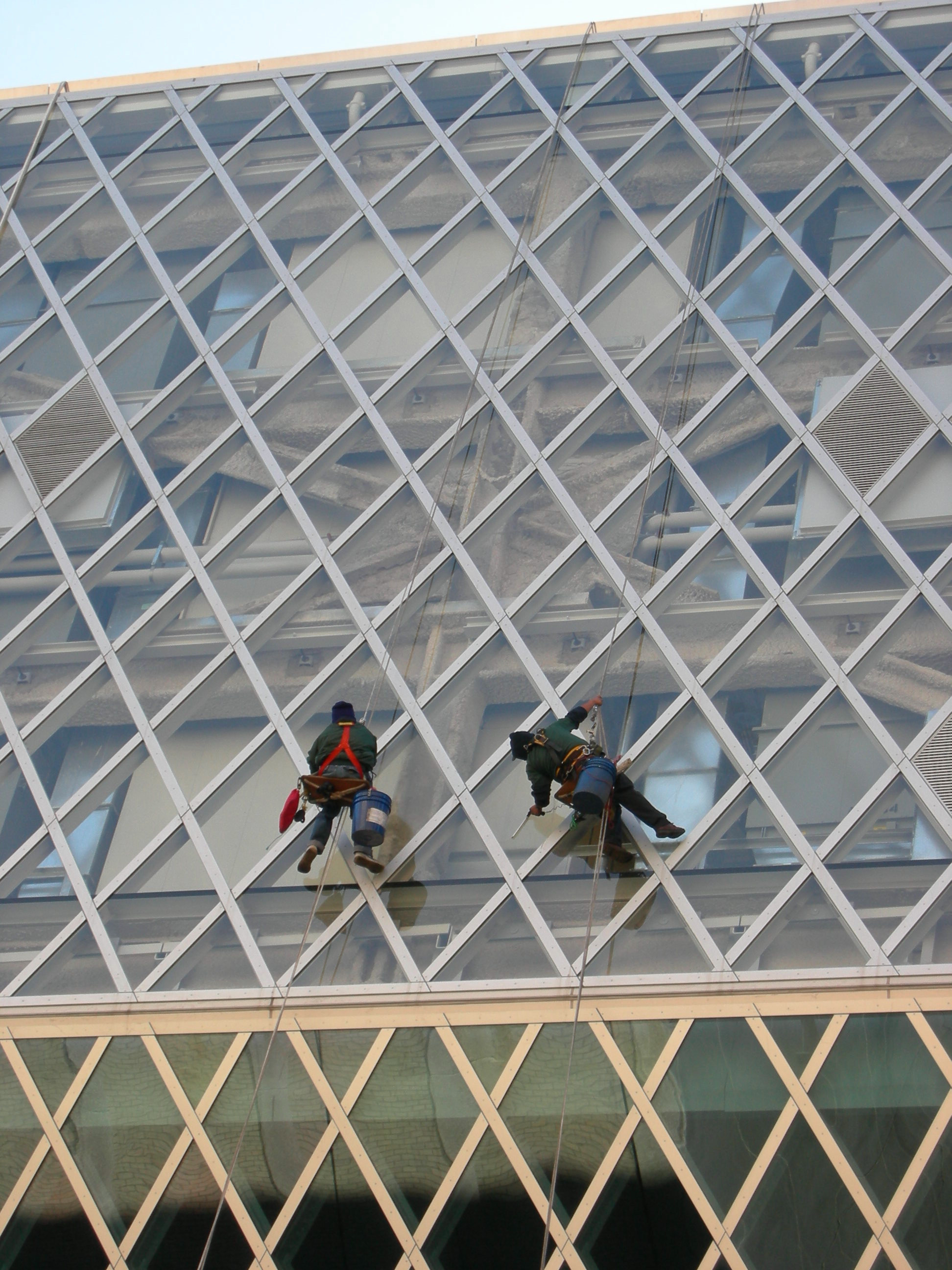 Window washers, Seattle Central Library, Seattle, Washington